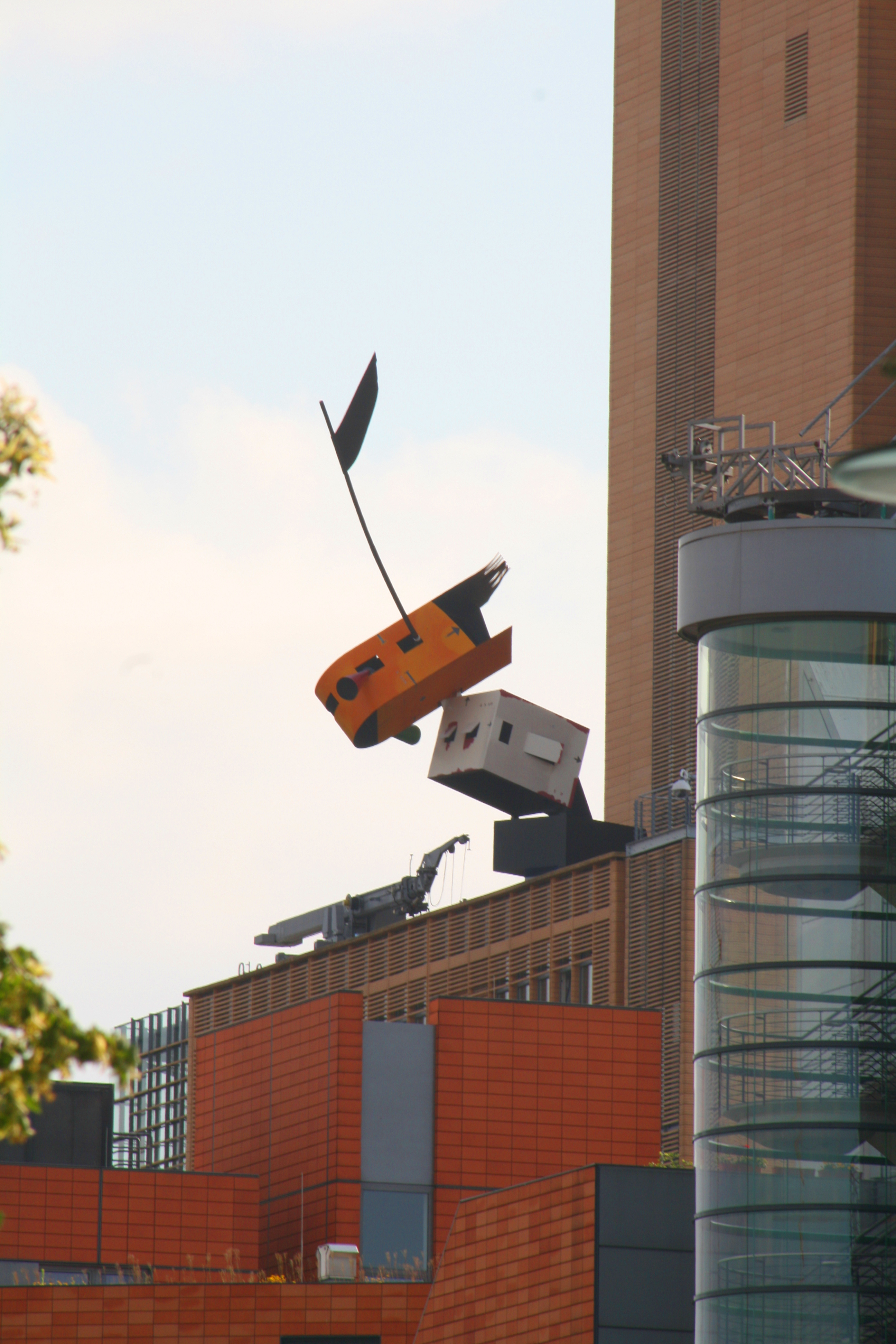 Sculpture made by the Dutch artist Auke de Vries installed at the south-eastern roof of the Debis-Haus, Berlin